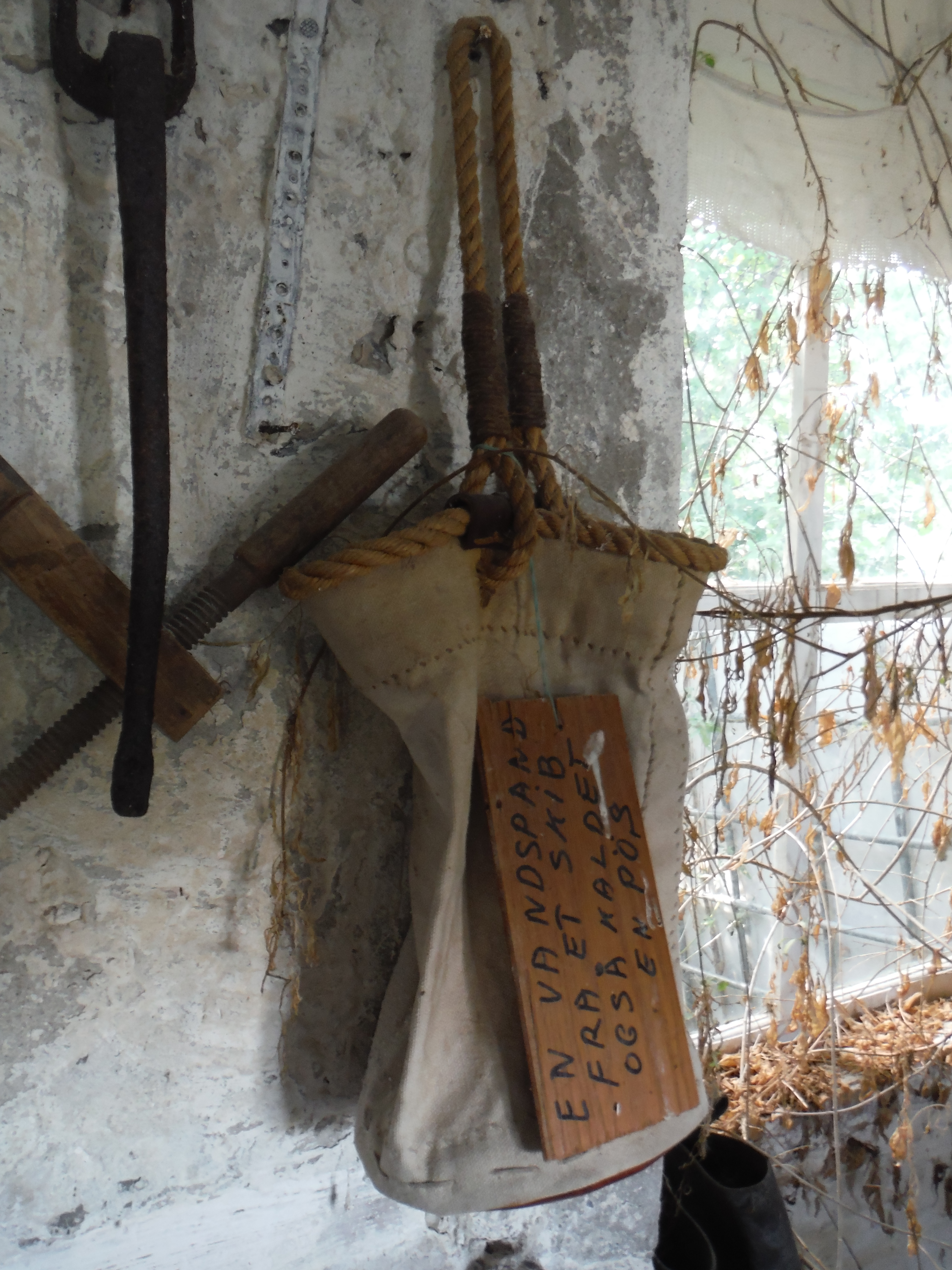 Old Bucket